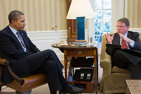 President Barack Obama participates in an interview with Jeff Goldberg in the Oval Office, Feb. 27, 2014.